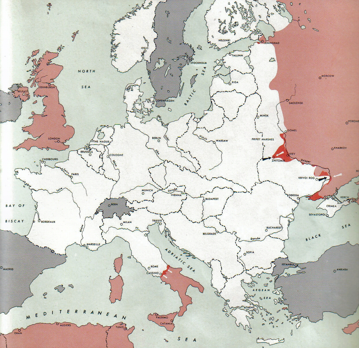 Map of the front against Germany: This map is taken from the source "Atlas of the World Battle Fronts in Semimonthly Phases to August 15th 1945: Supplement to The Biennial report of The Chief of Staff of the United States Army July 1, 1943 to June 30 1945 To the Secretary of War". (See Cover, Forward and Map details)